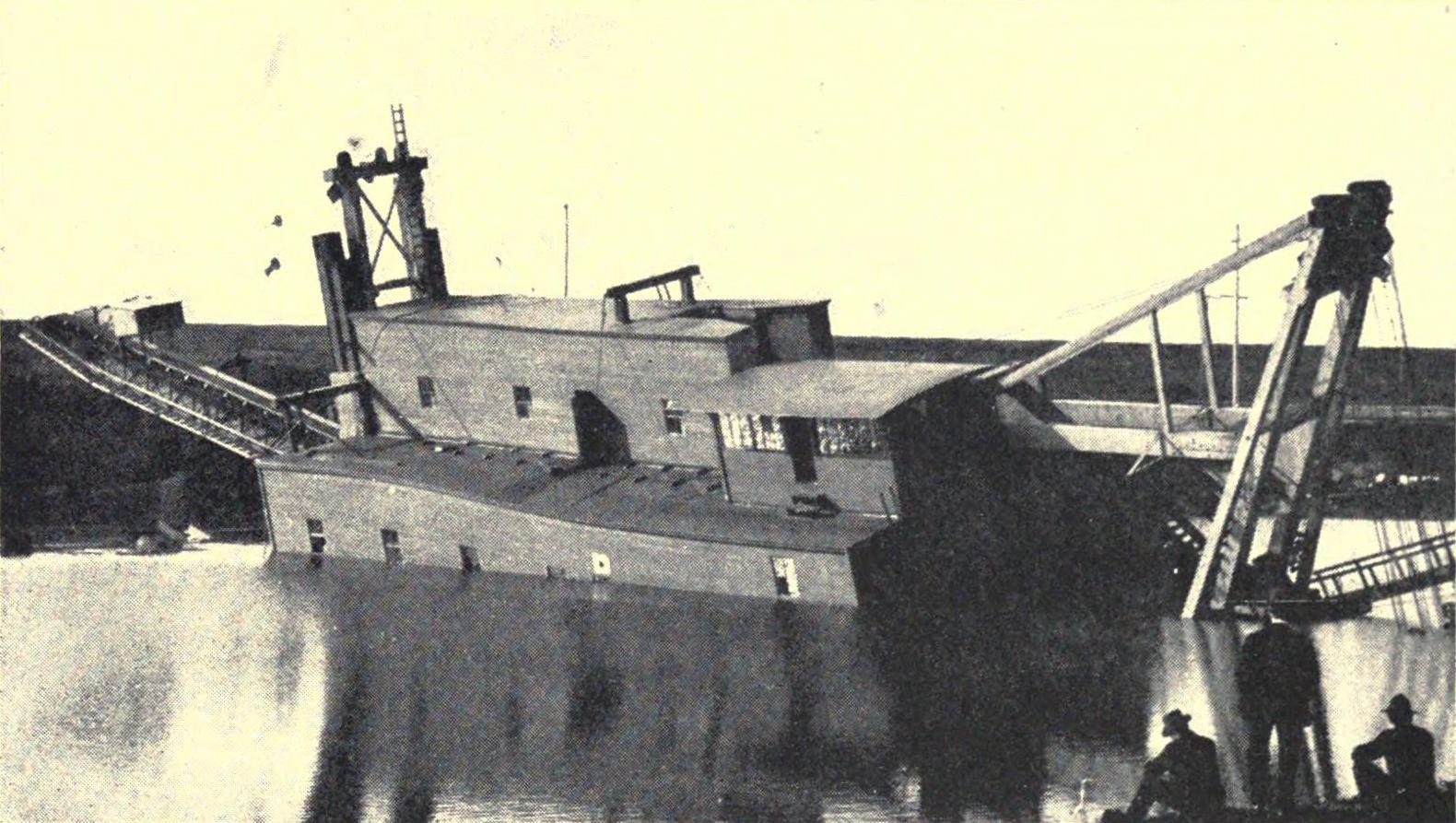 A disabled gold dredge near Nome, Alaska 1908.